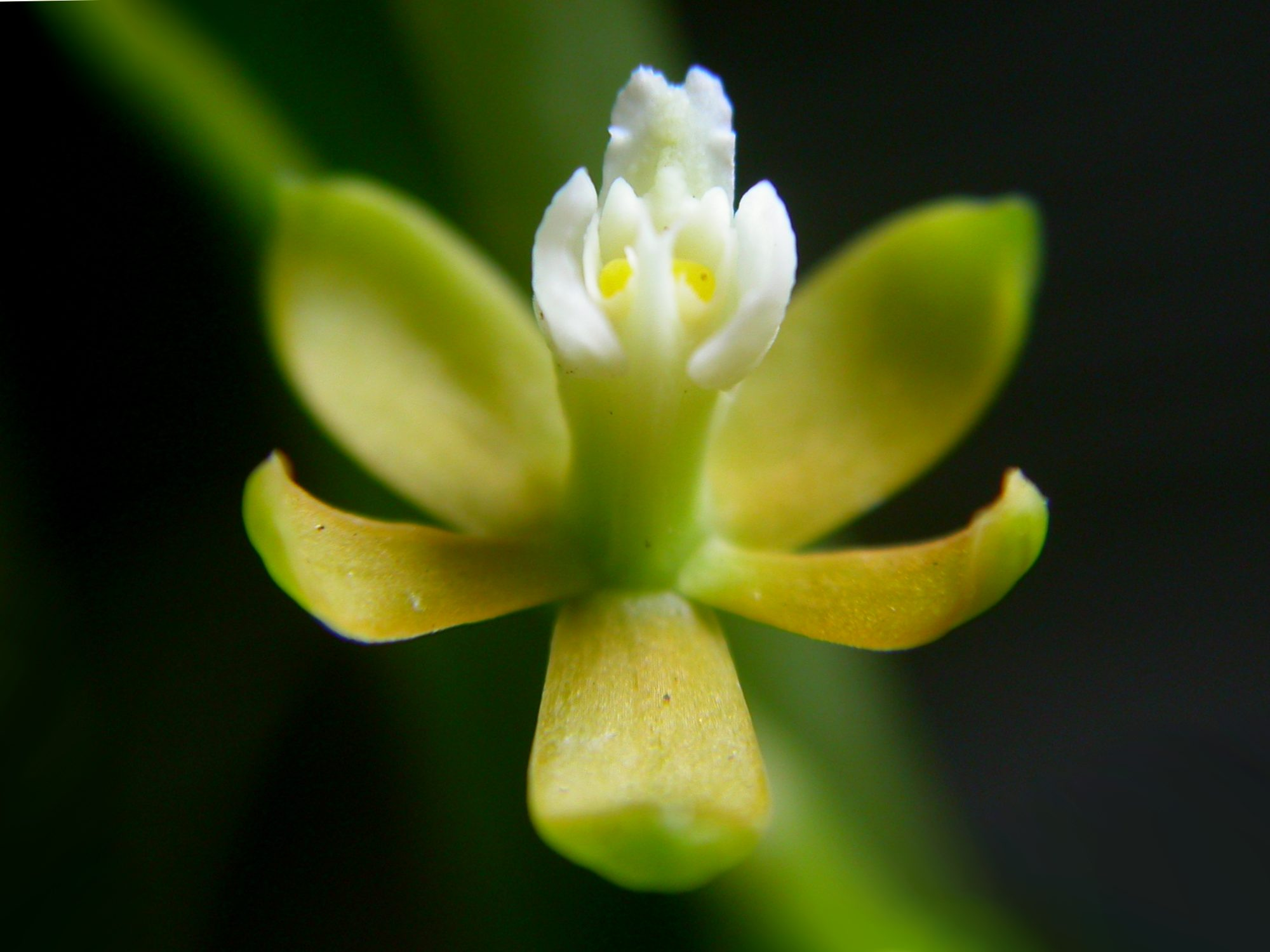 Prosthechea ochracea